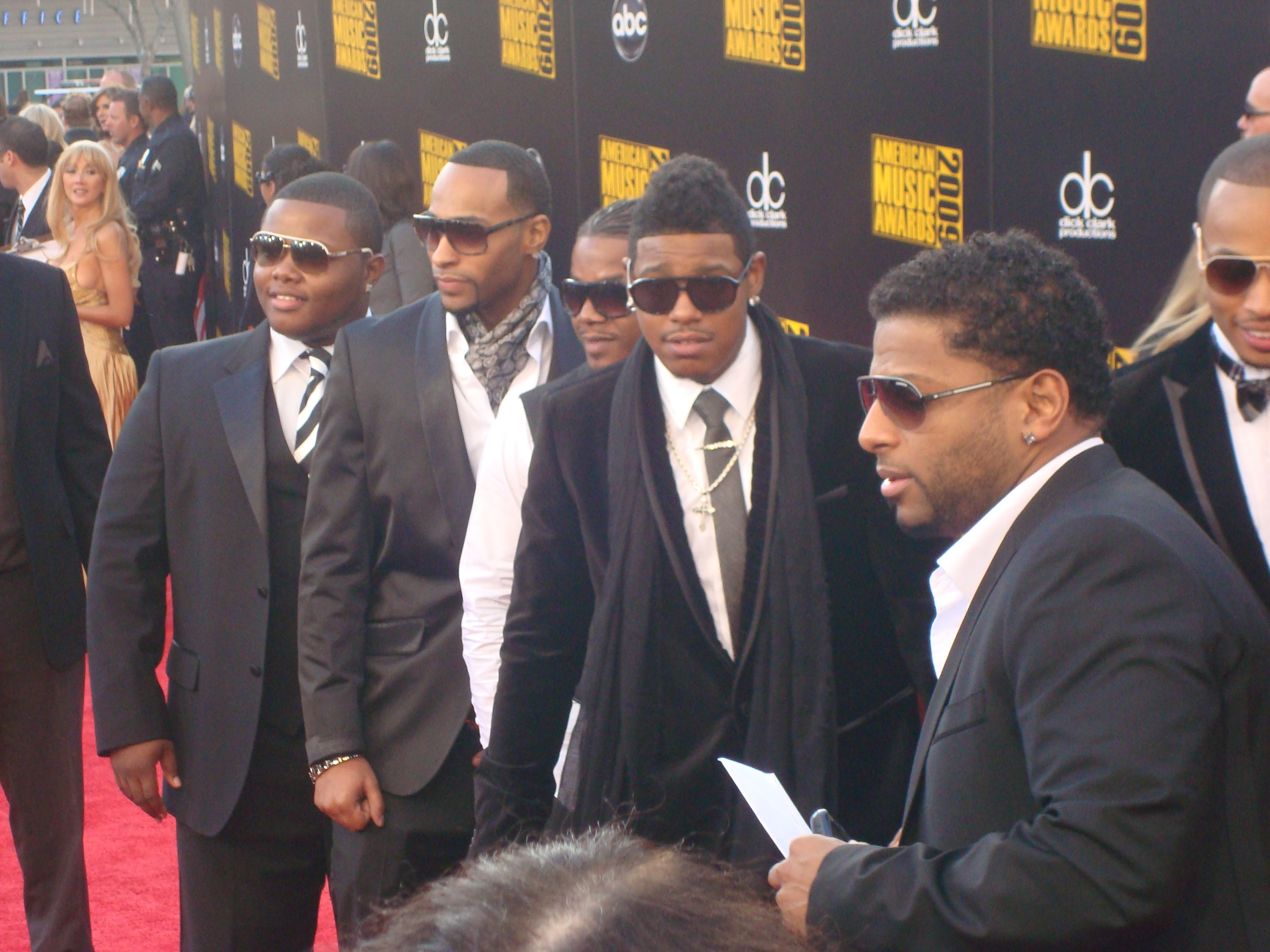 Day 26: Brian Andrews, Robert Curry, Michael McCluney, Willie Taylor & Qwanell Mosley